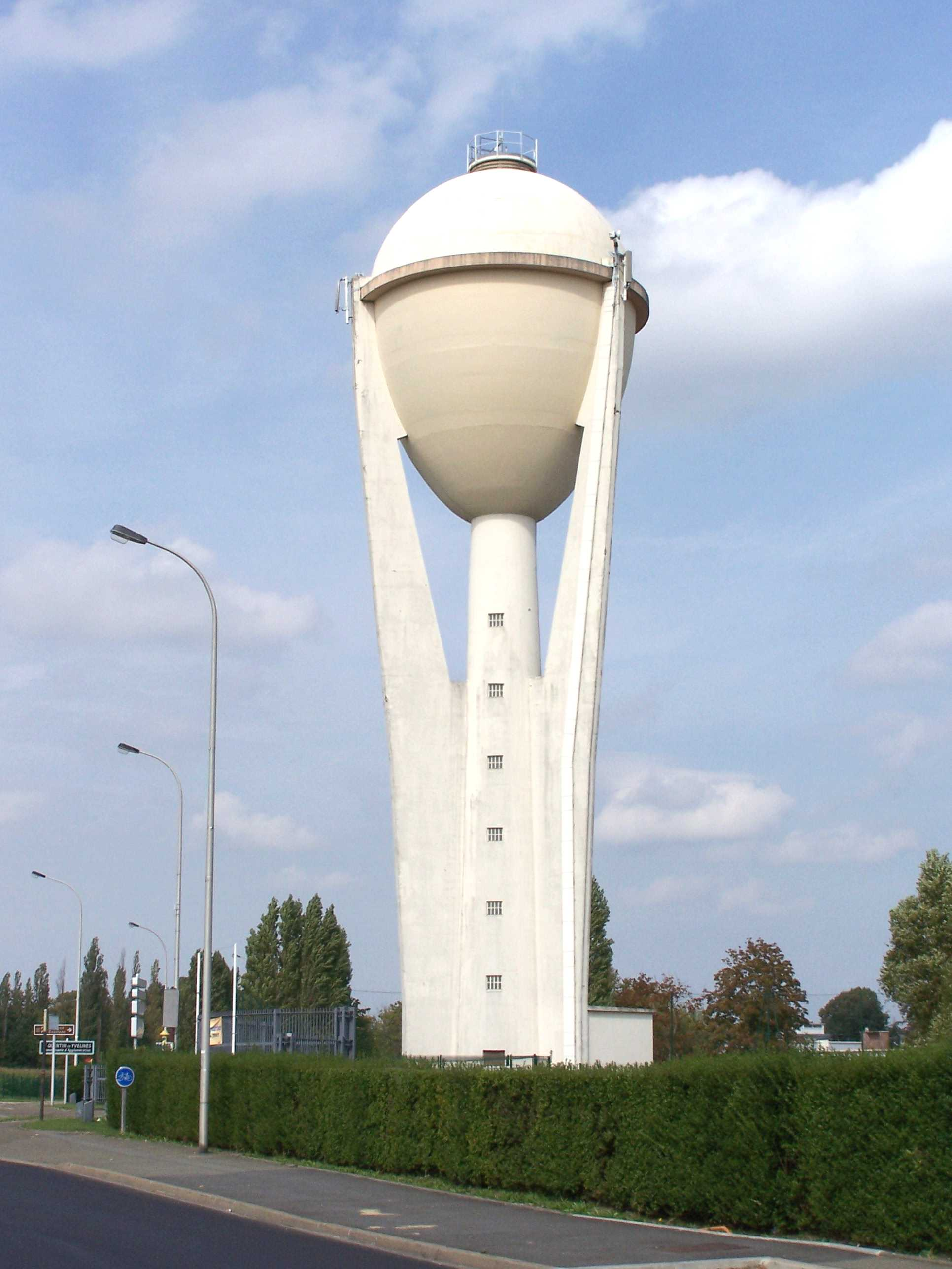 Water tower of La Verrière (Yvelines, France)